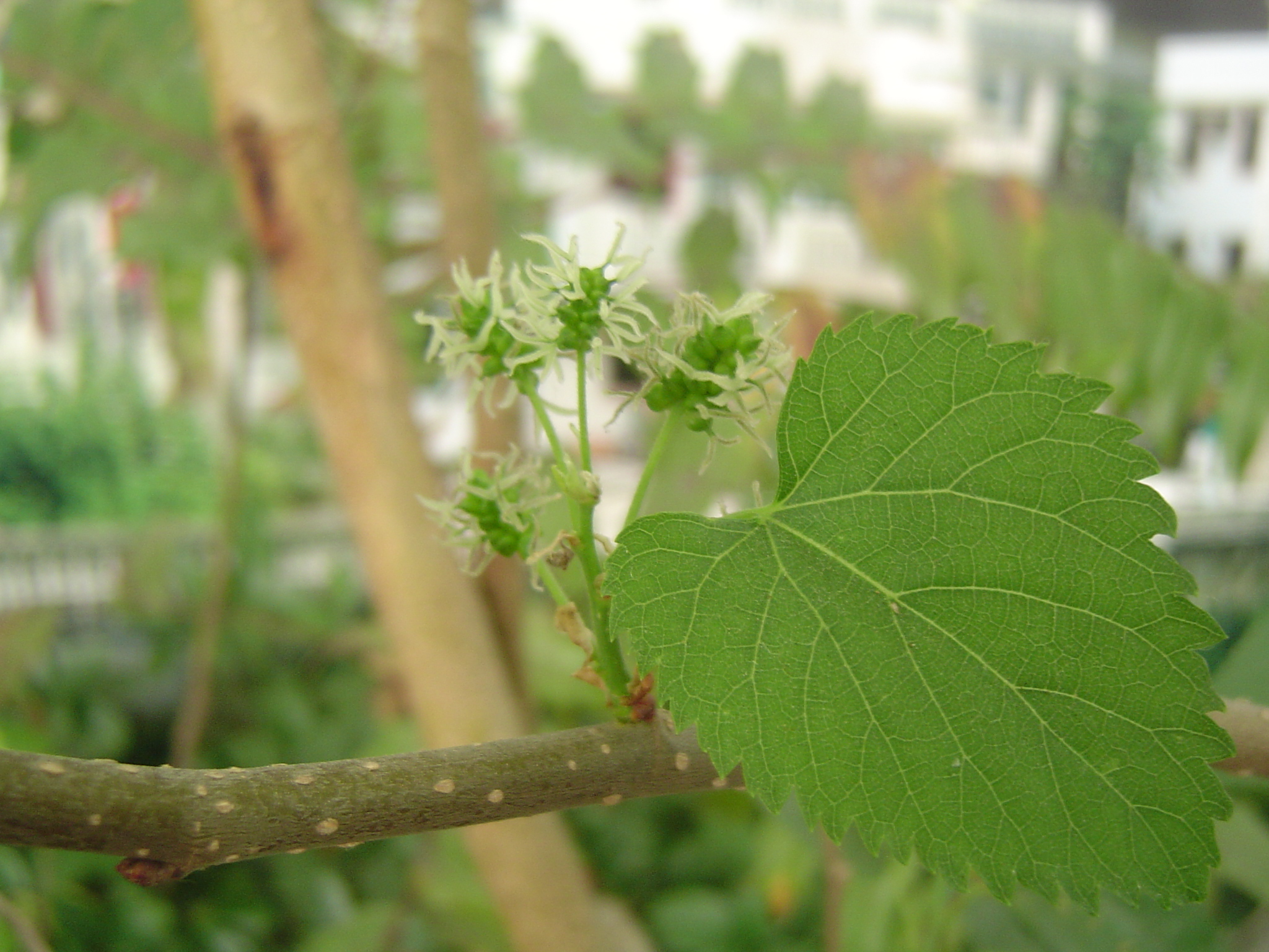 Catkins of White Mulberry (Morus alba).